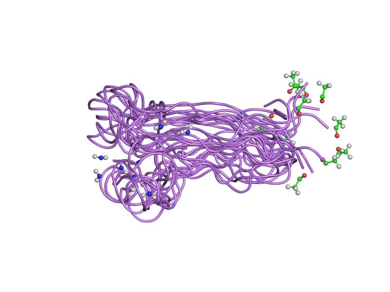 Cartoon representation of the molecular structure of protein registered with 2j5h code.